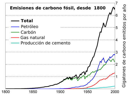 Global_Carbon_Emission_by_Type fr